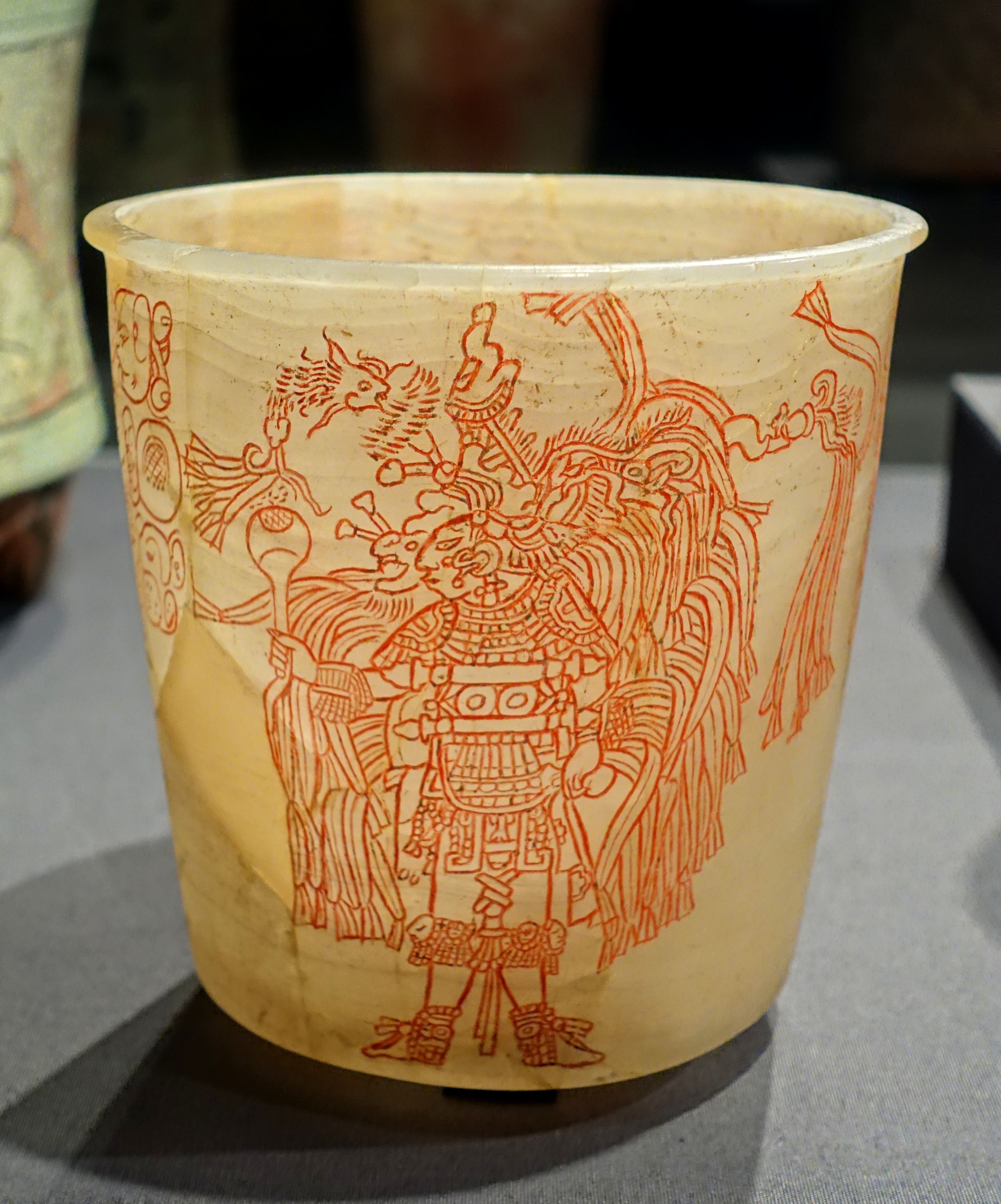 Exhibit in the Princeton University Art Museum - Princeton University, Princeton, New Jersey, USA.